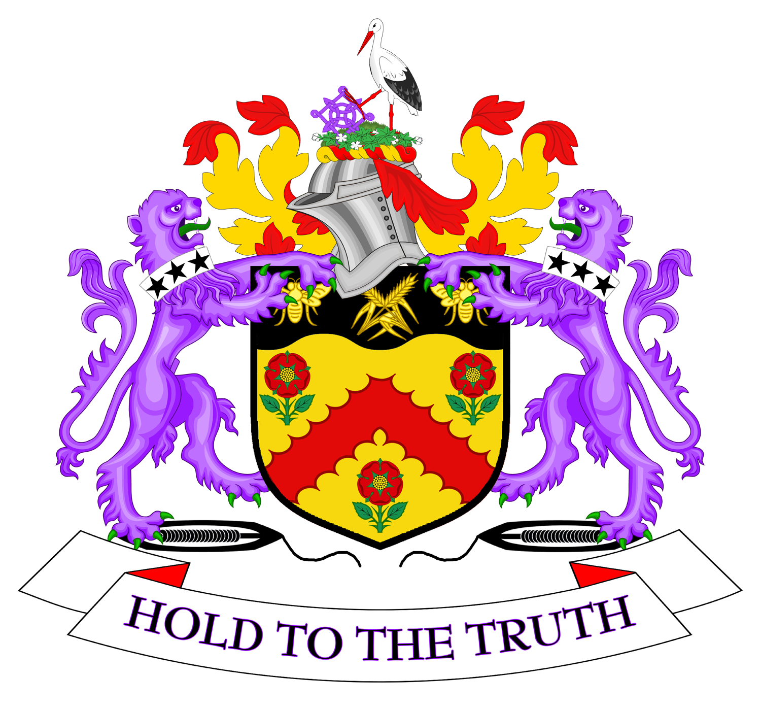 The Coat of arms of Burnley Borough Council, the local government authority for the Borough of Burnley, in Lancashire, England. The blazon is:ARMS: Or a Chevron engrailed between three Roses Gules barbed seeded slipped and leaved proper on a Chief wavy Sable two ears of Wheat in saltire slipped and leaved between two Bees volant Or.CREST: On a Wreath of the Colours on a Mount Vert environed of a Wreath of the Cotton Plant flowered proper a Stork Argent beaked and membered Gules resting the dexter claw on a Lacy Knot Purpure.SUPPORTERS: On either side a Lion Purpure armed and langued Vert gorged with a Collar Argent charged with three Mullets Sable and resting the interior hind paw on a Shuttle fesswise Sable the thread inward to the shield Or.